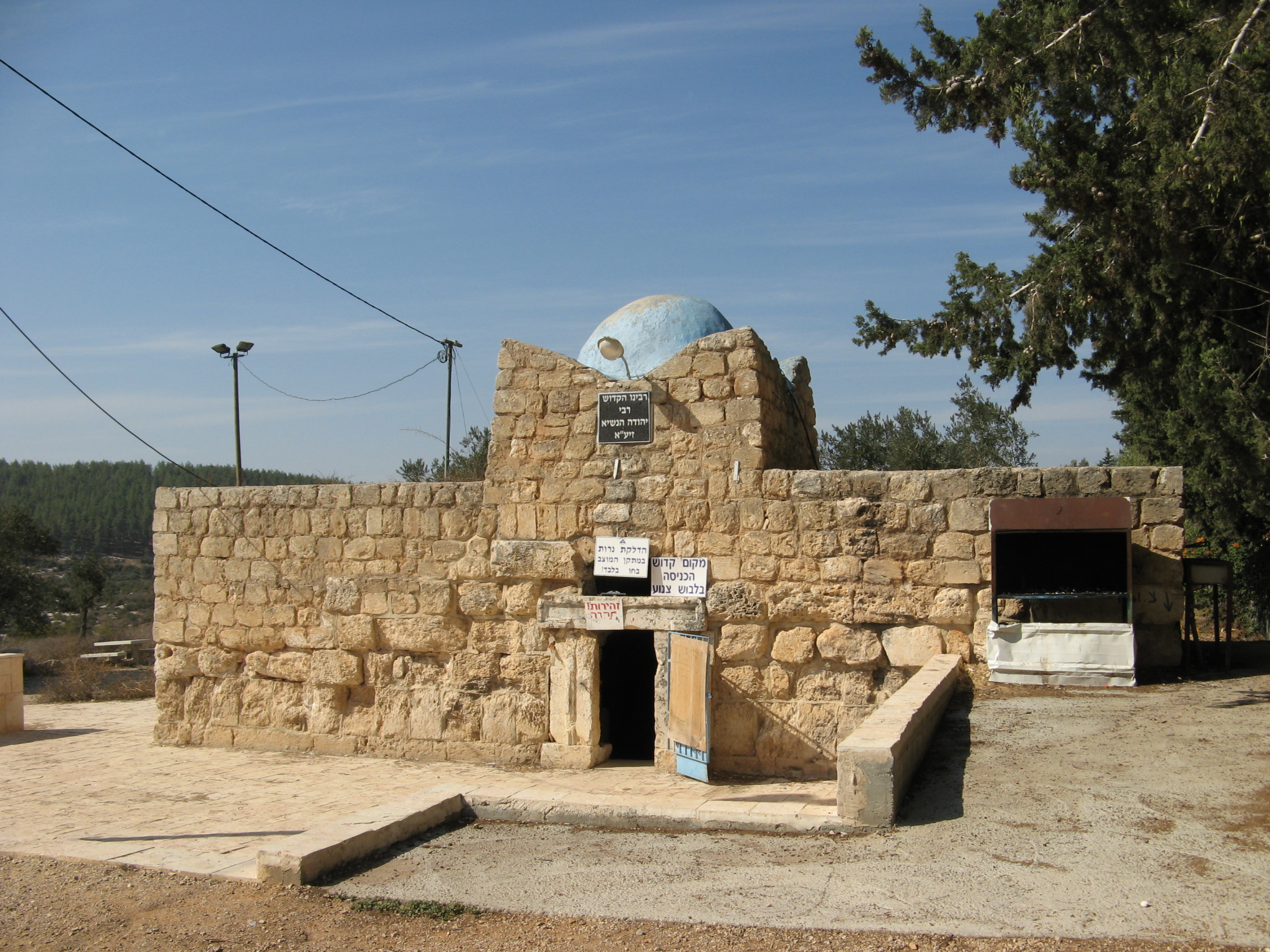 Gravestone of Rabbi Judah II. Considered by Jewish folklore as the gravestone of Rabbi Judah haNasi.